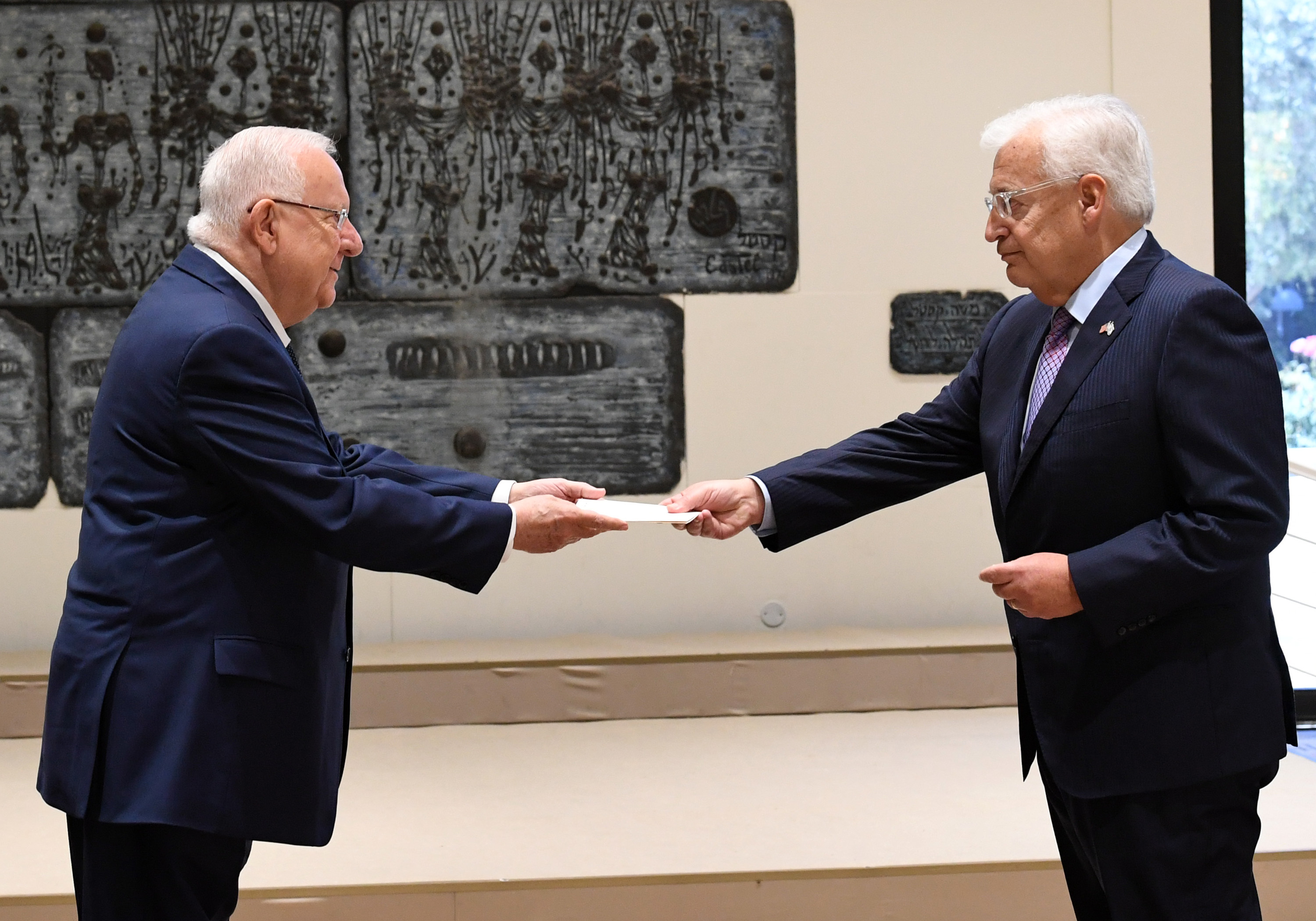 Ambassador Friedman's Presentation of Credentials May 16, 2017.